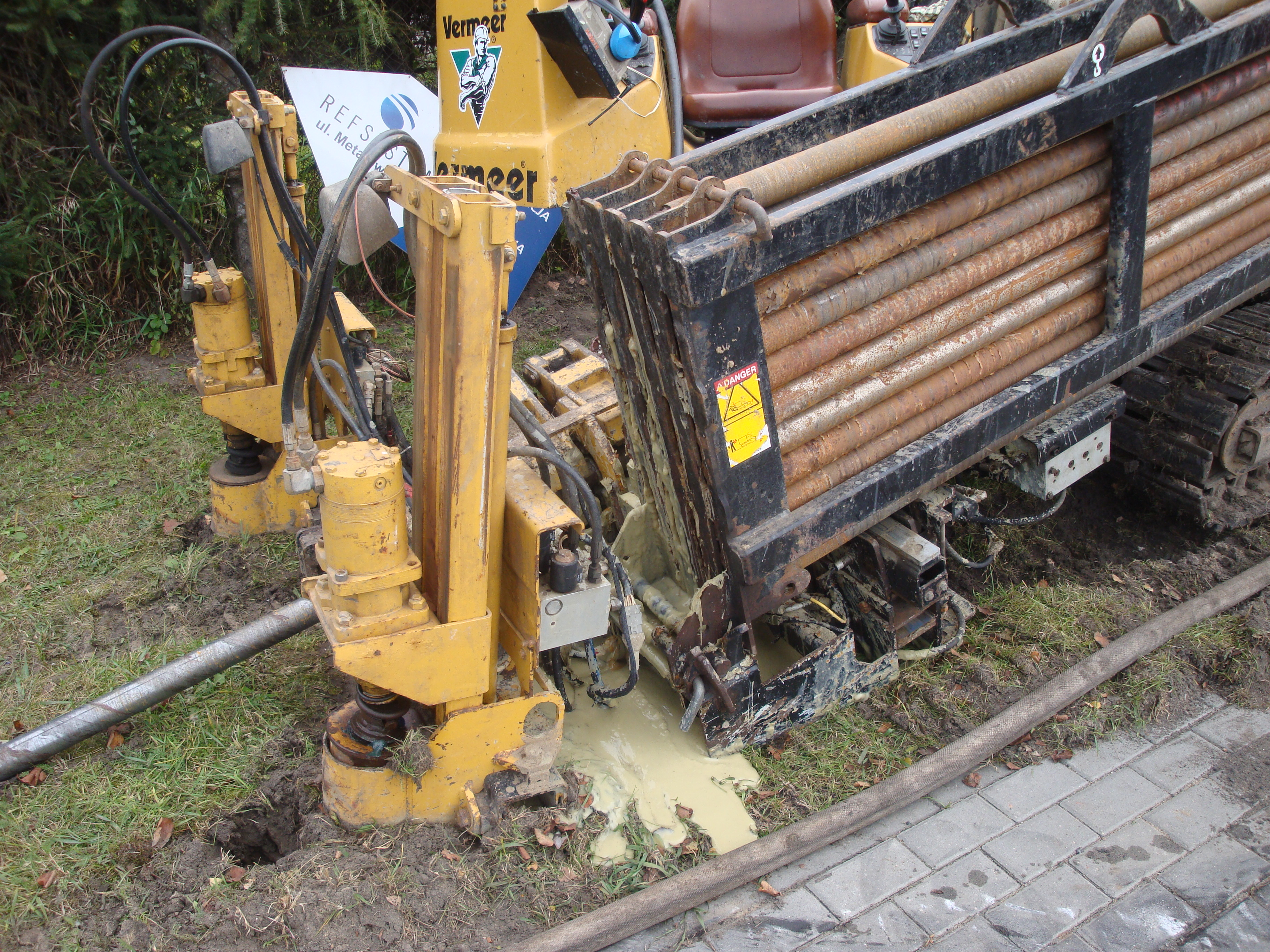 Drilling fluid leaking form pipes of horizontal drilling machine